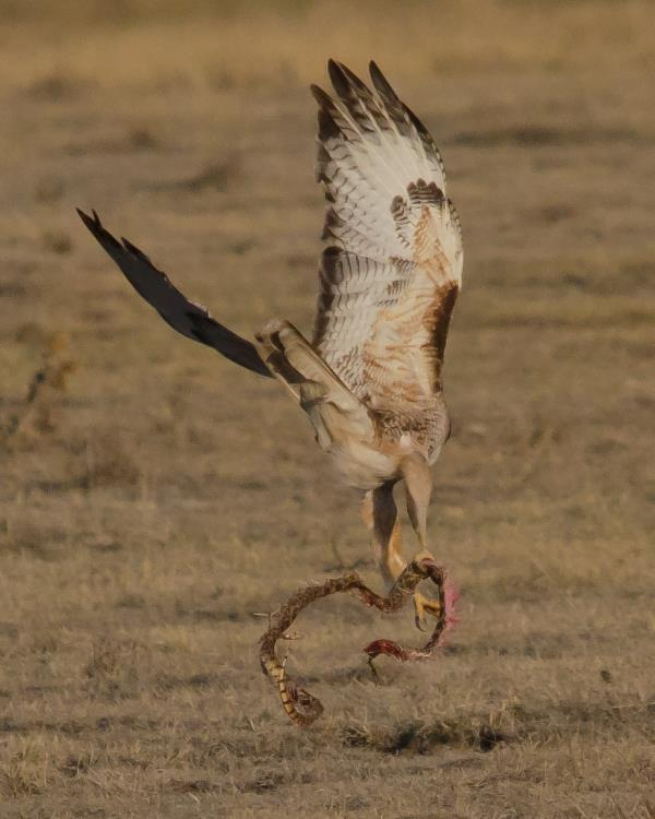 Credit: Kimberly Tamkun / USFWS Photo Contest Entry #198